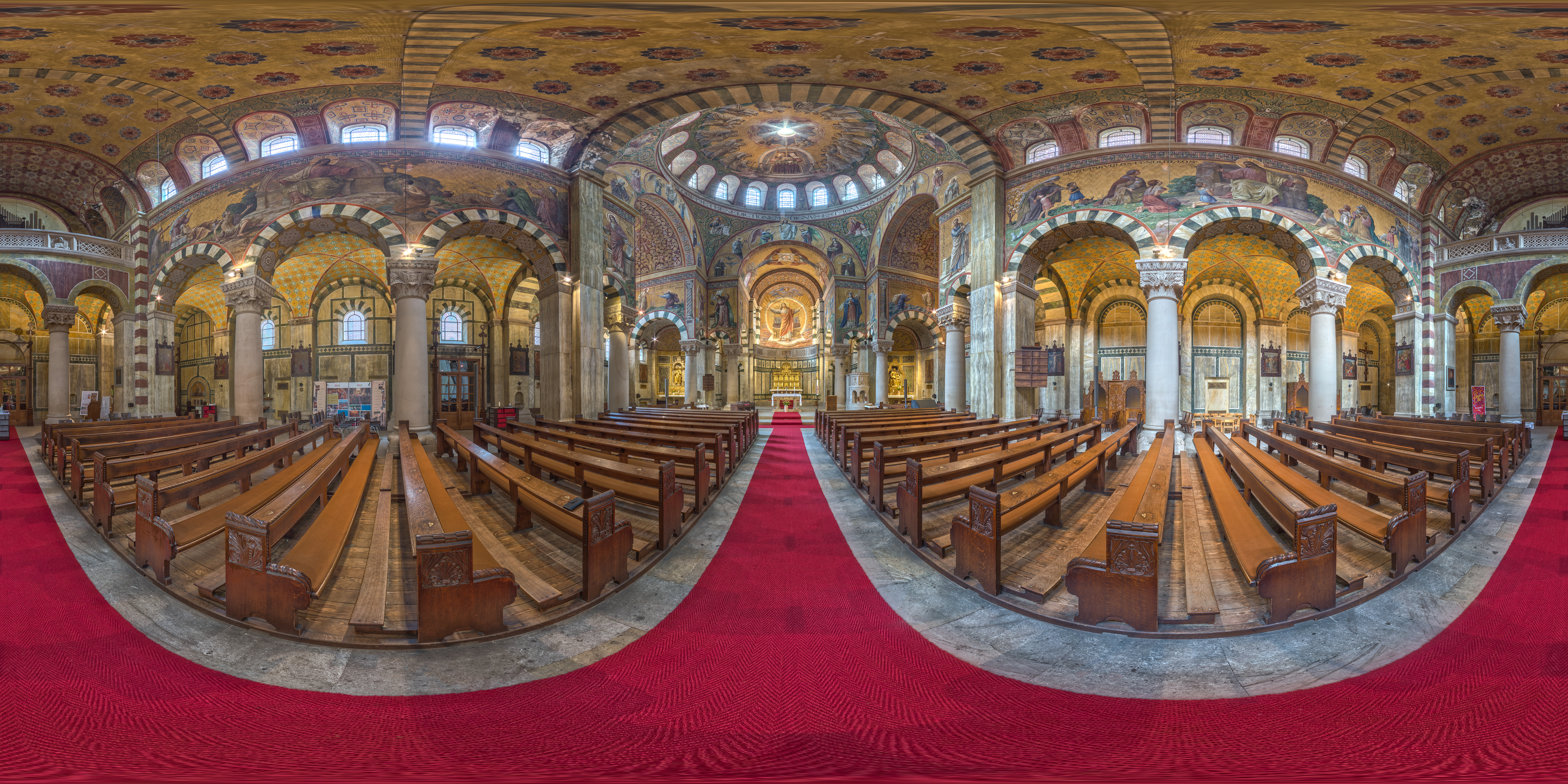 Spherical panorama of the Sacred Heart Church (Herz-Jesu-Kirche) in Berlin-Prenzlauer Berg. To be viewed in the 360° panoramic viewer!